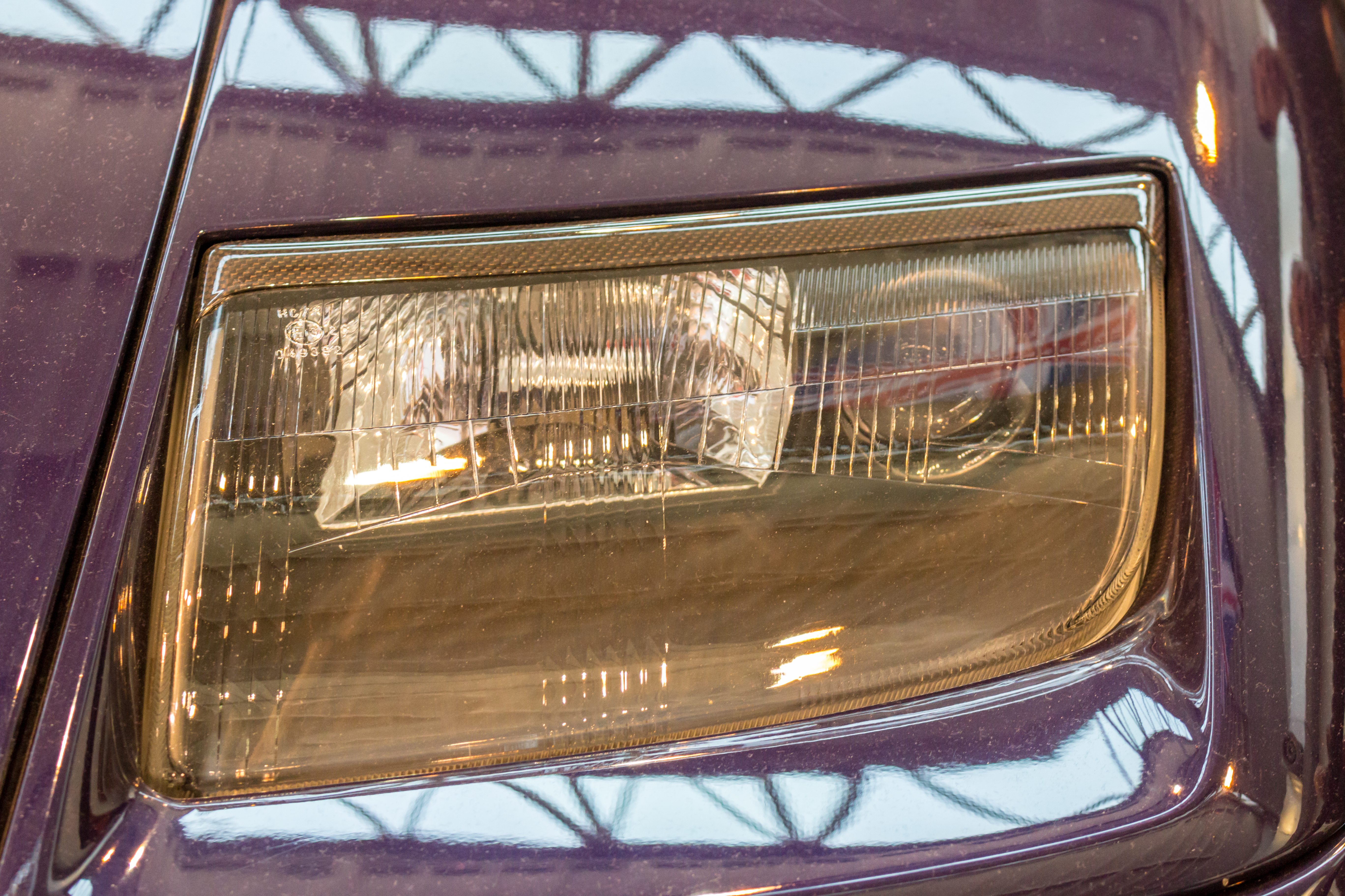 Techno Classica 2018, Essen